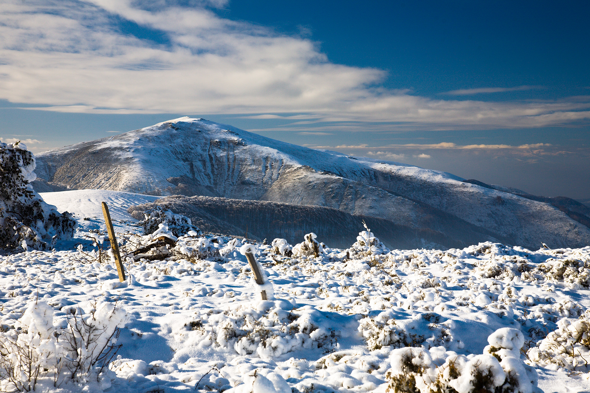 Kadiitsa peak - Vlahina mountain's summit, SW Bulgaria